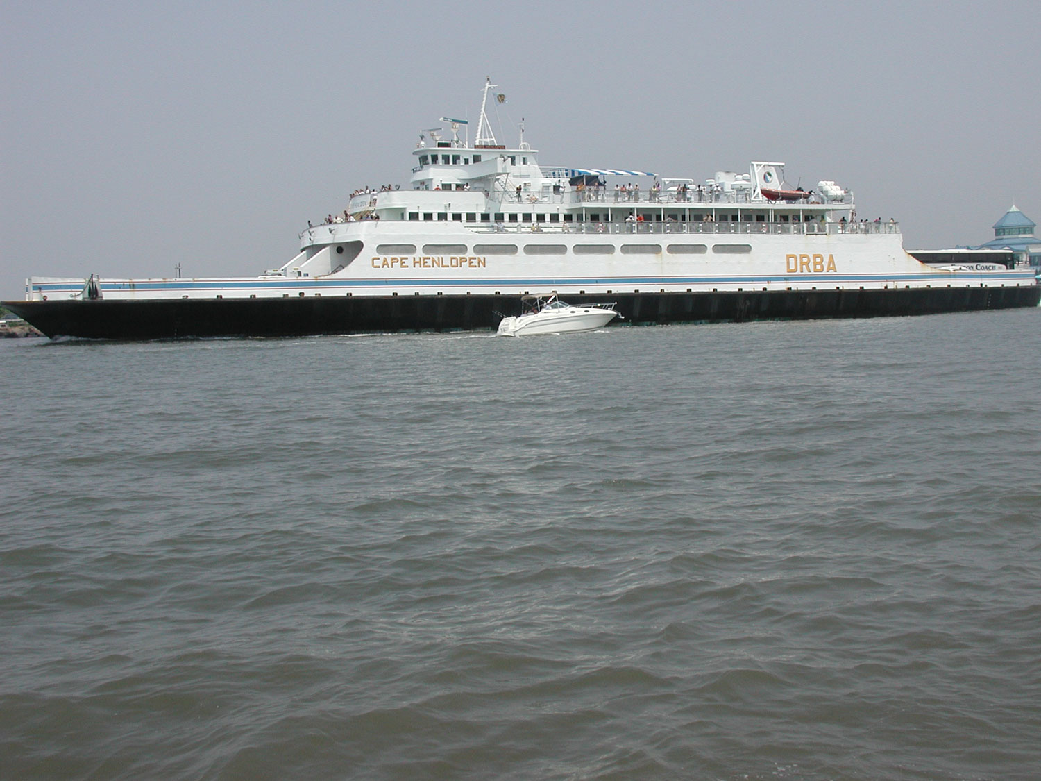 The M.V. Cape Henlopen leaving the dock at the Cape May, New Jersey, terminal of the Cape May-Lewes Ferry, on July 4, 2003. Photo by Adam Gilson.